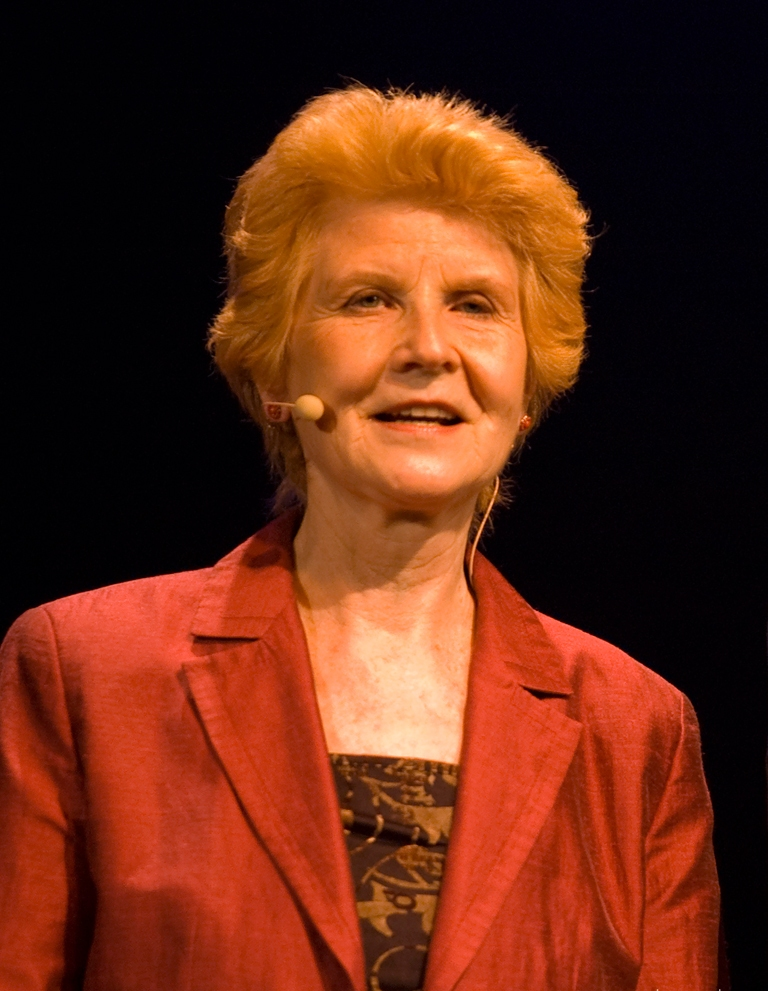 German actress for movie, theater and TV